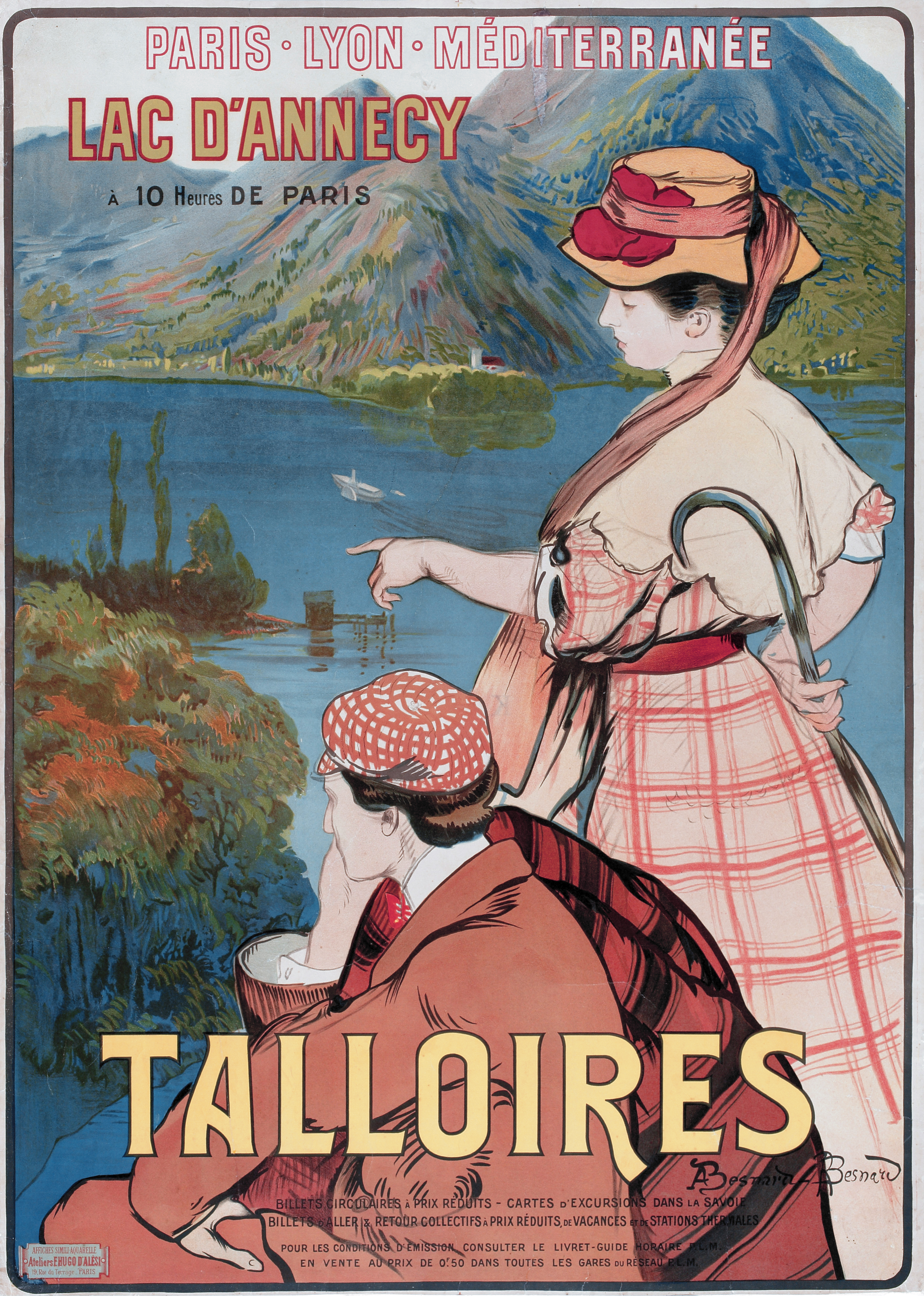 Talloires 1910